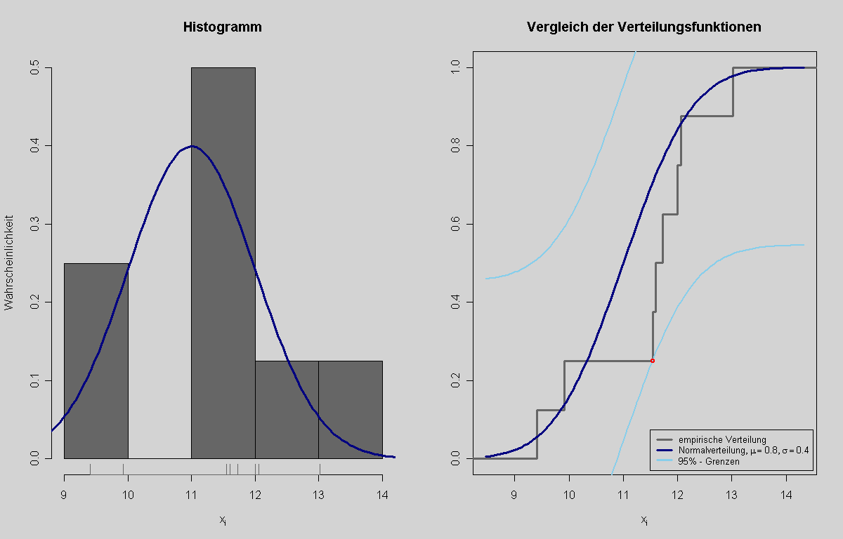 An image for the german example for the kolmogorov smirnov test